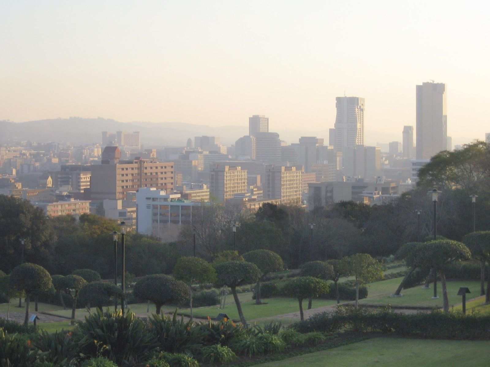 Pretoria city centre seen from Union Buildings.